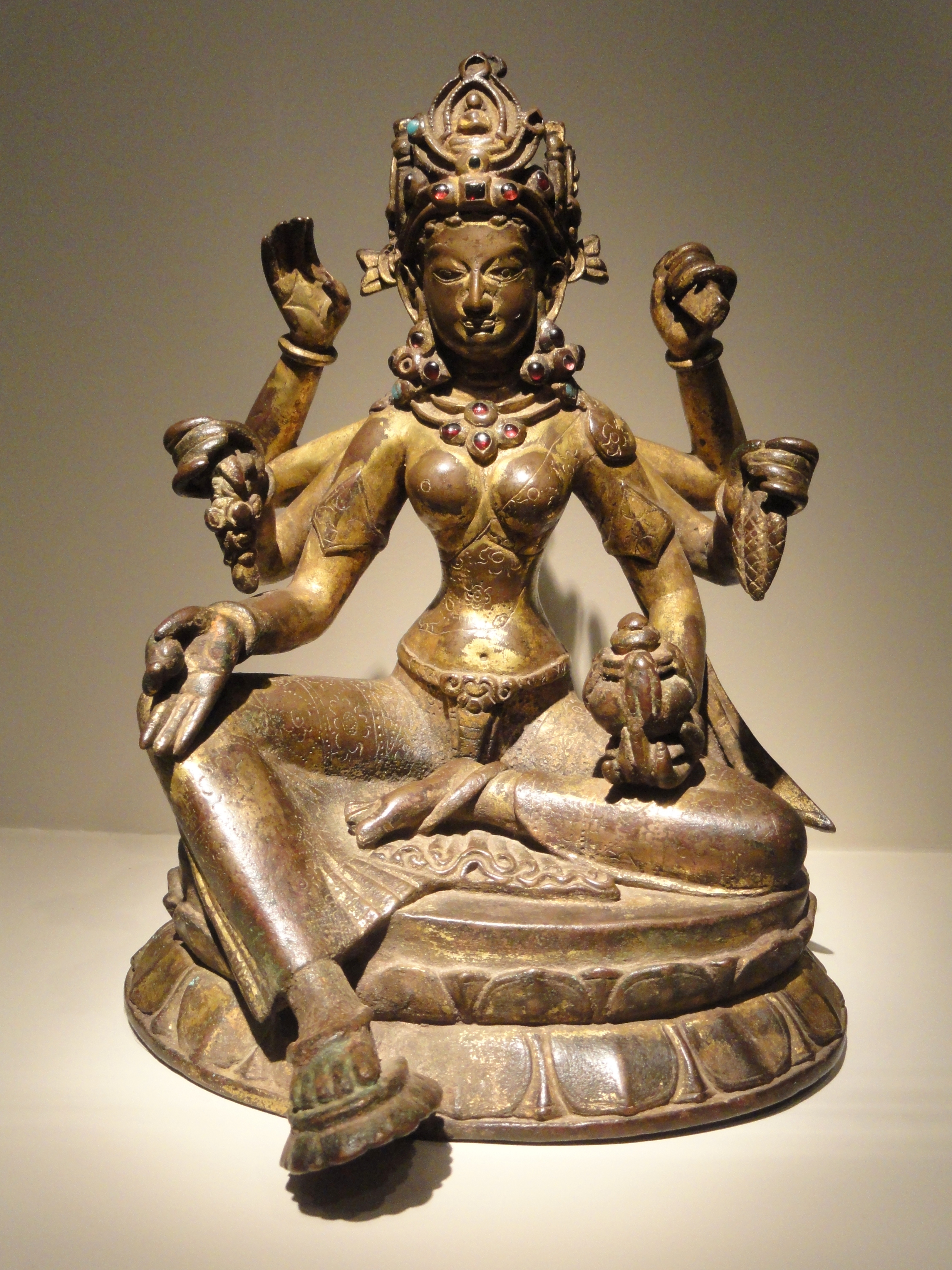 Exhibit in the Arthur M. Sackler Gallery, Washington, DC, USA. This artwork is old enough so that it is in the public domain.